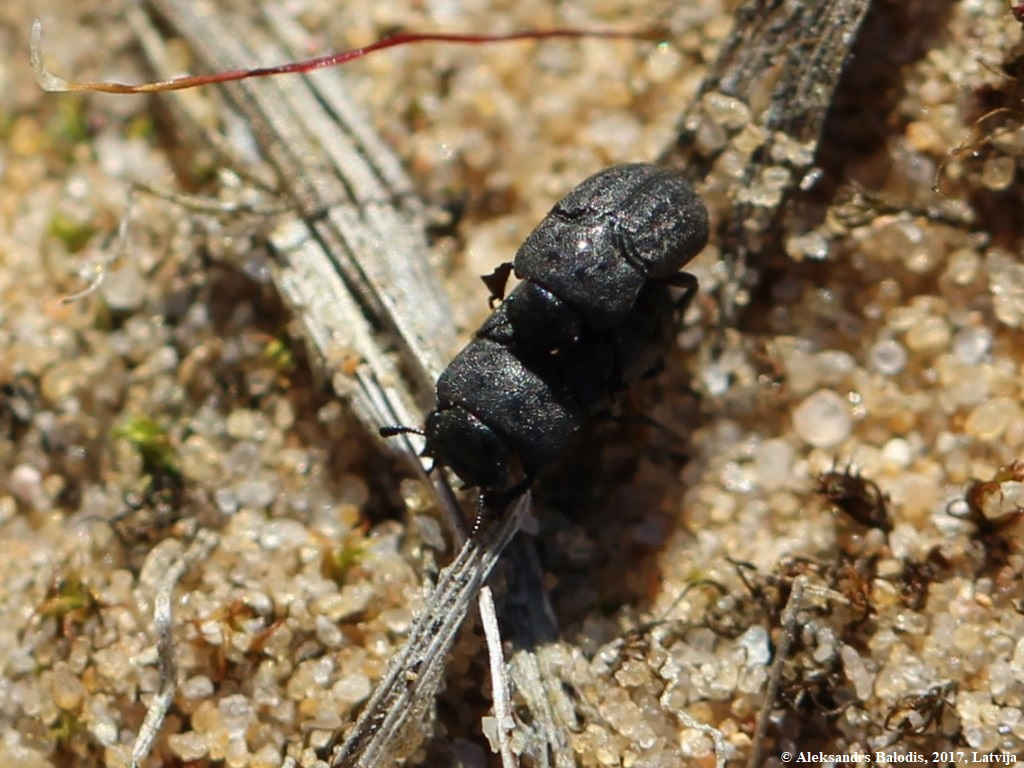 Melanimon tibiale